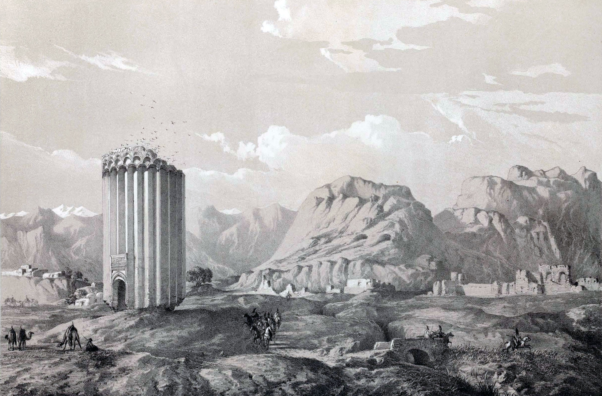 Tower and ruins of Rhey Yezid , near Tehran